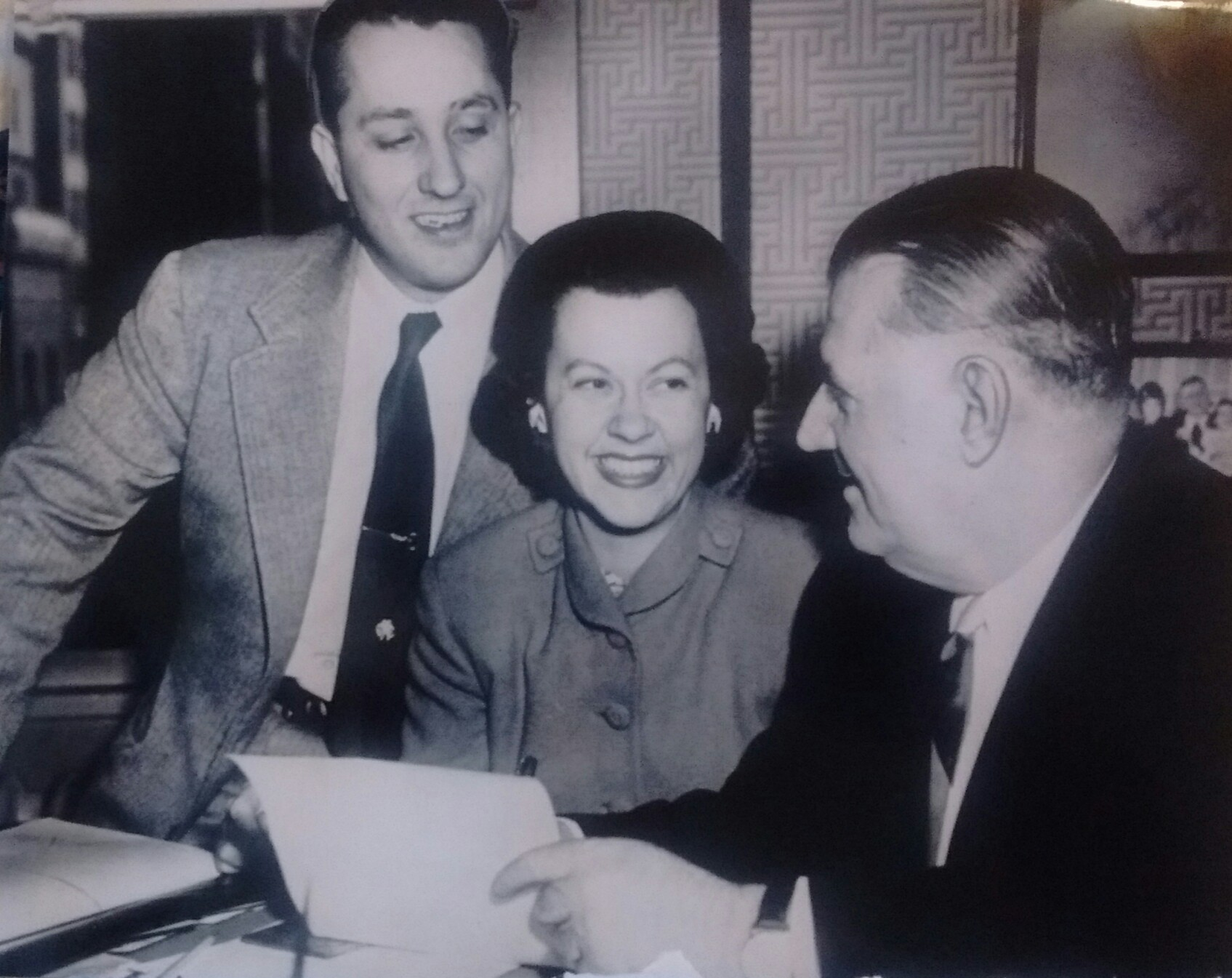 Head of the group that bought the New York Yanks, Giles E. Miller, completes purchase paperwork with NFL Commissioner Bert Bell and Miller's wife, Betty.